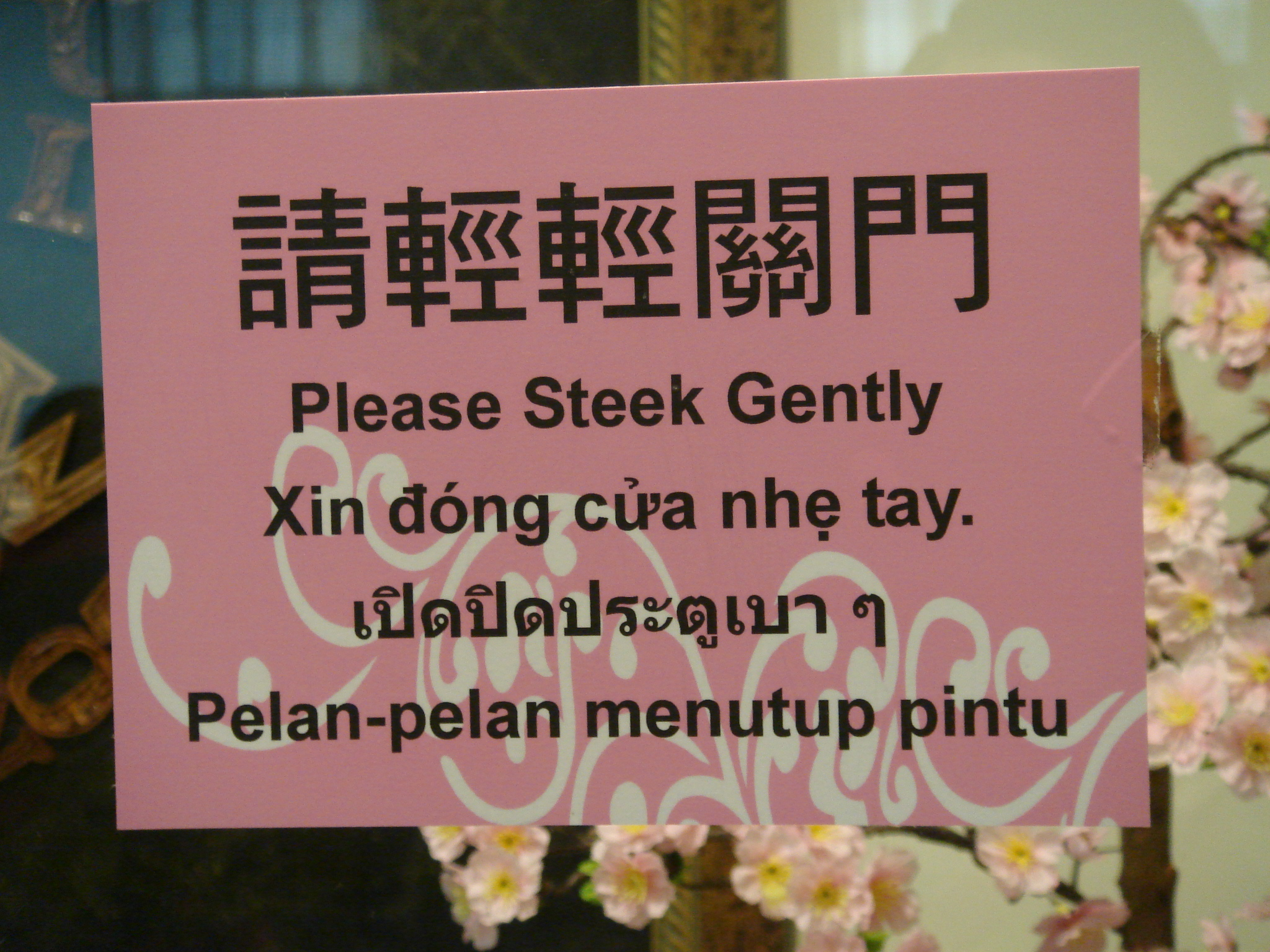 Image taken by author of a sign on a door. This is an example of Chinglish. This door is located in the city of Taipei, Taiwan, the foreign immigrants recreational hall administered by the Taipei government. The word "Steek" is a legitimate English word, except it fell from common use hundreds of years ago. From bottom to top, the languages are Chinese, English, Vietnamese, Thai, and Bahasa Indonesia.